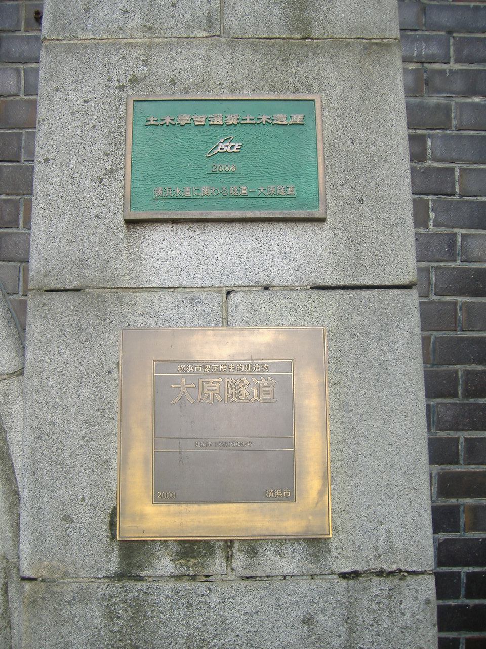 Ōhara zuido-Commemorative plaque (Yokohama, Japan)